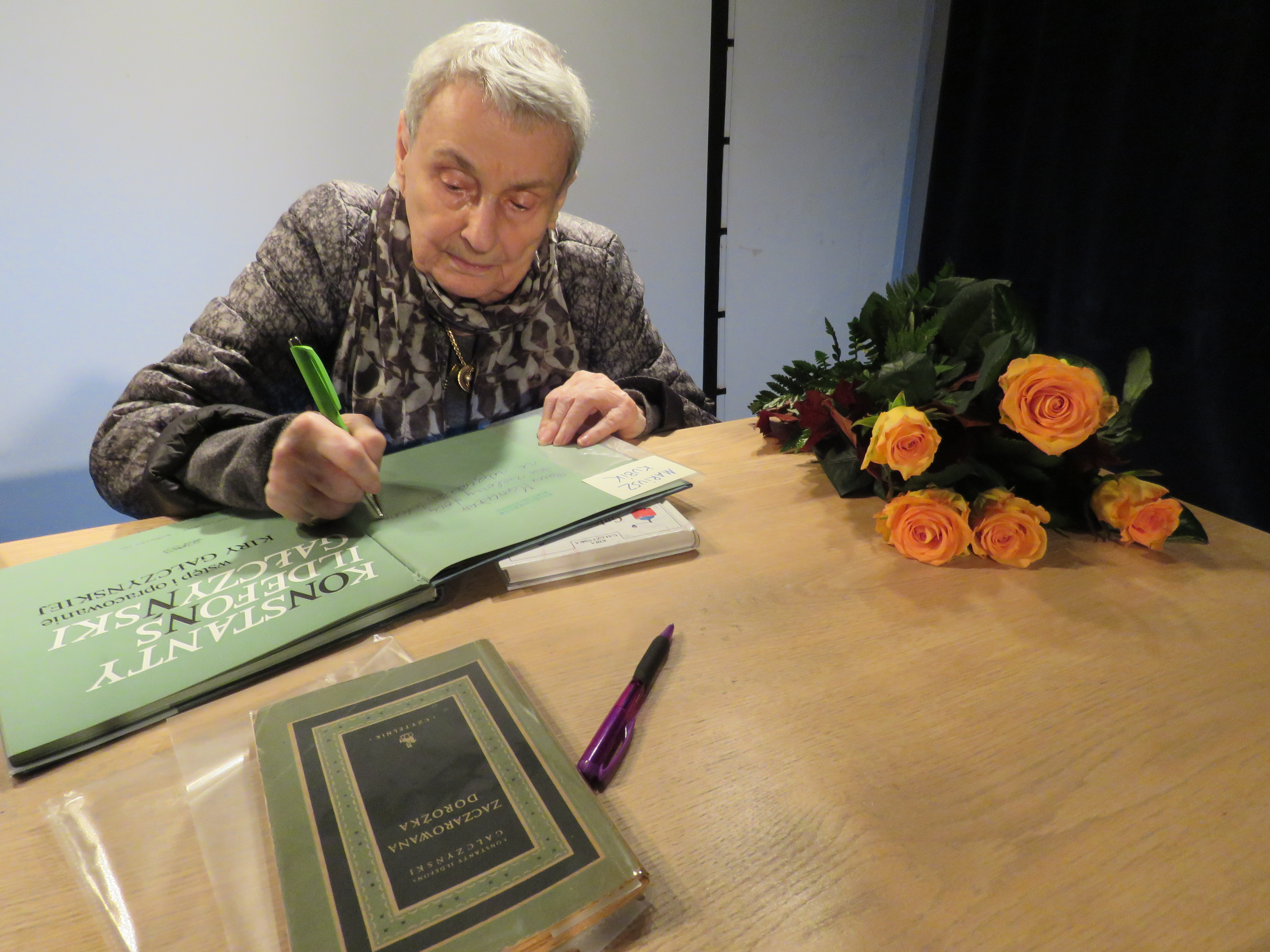 Kira Gałczyńska (b. April 26, 1936 in Wilno) - Polish writer and journalist, daughter of Konstanty Ildefons Gałczyński (1905-1953). She lives in Warsaw, Poland